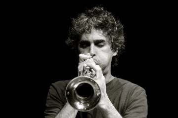 Leonel Kaplan at High Zero Festival, October 2006